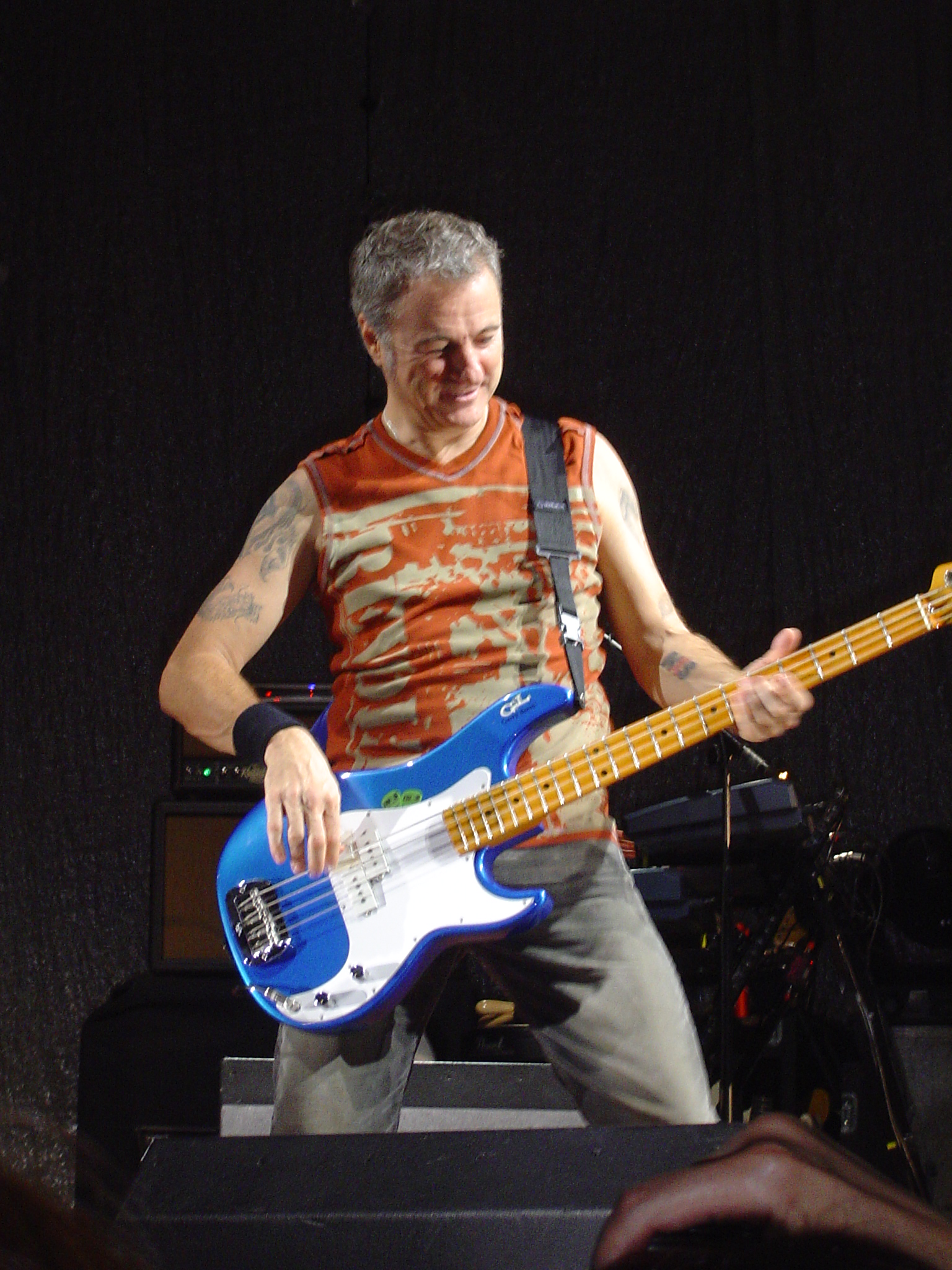 Garry Beers playing bass at the INXS Brighton Concert UK, June 2007